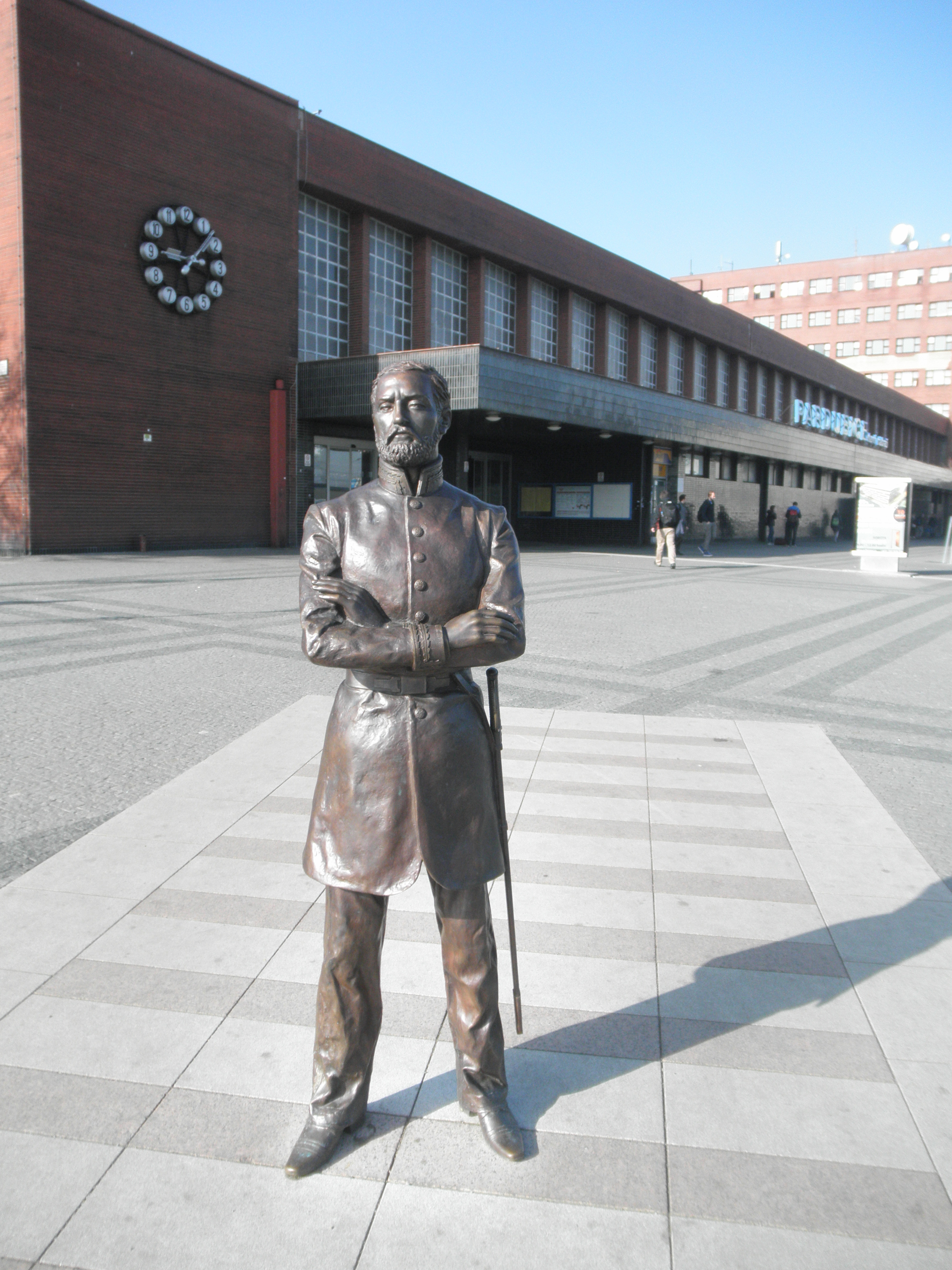 Bronzová socha Jana Pernera. Sochu vytvořil sochař Jaroslav Brož. V roce 2017 byla instalována před nádražím v Pardubicích.